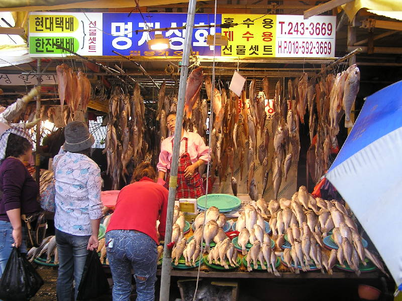 Jagalchi fish market in Busan, South Korea